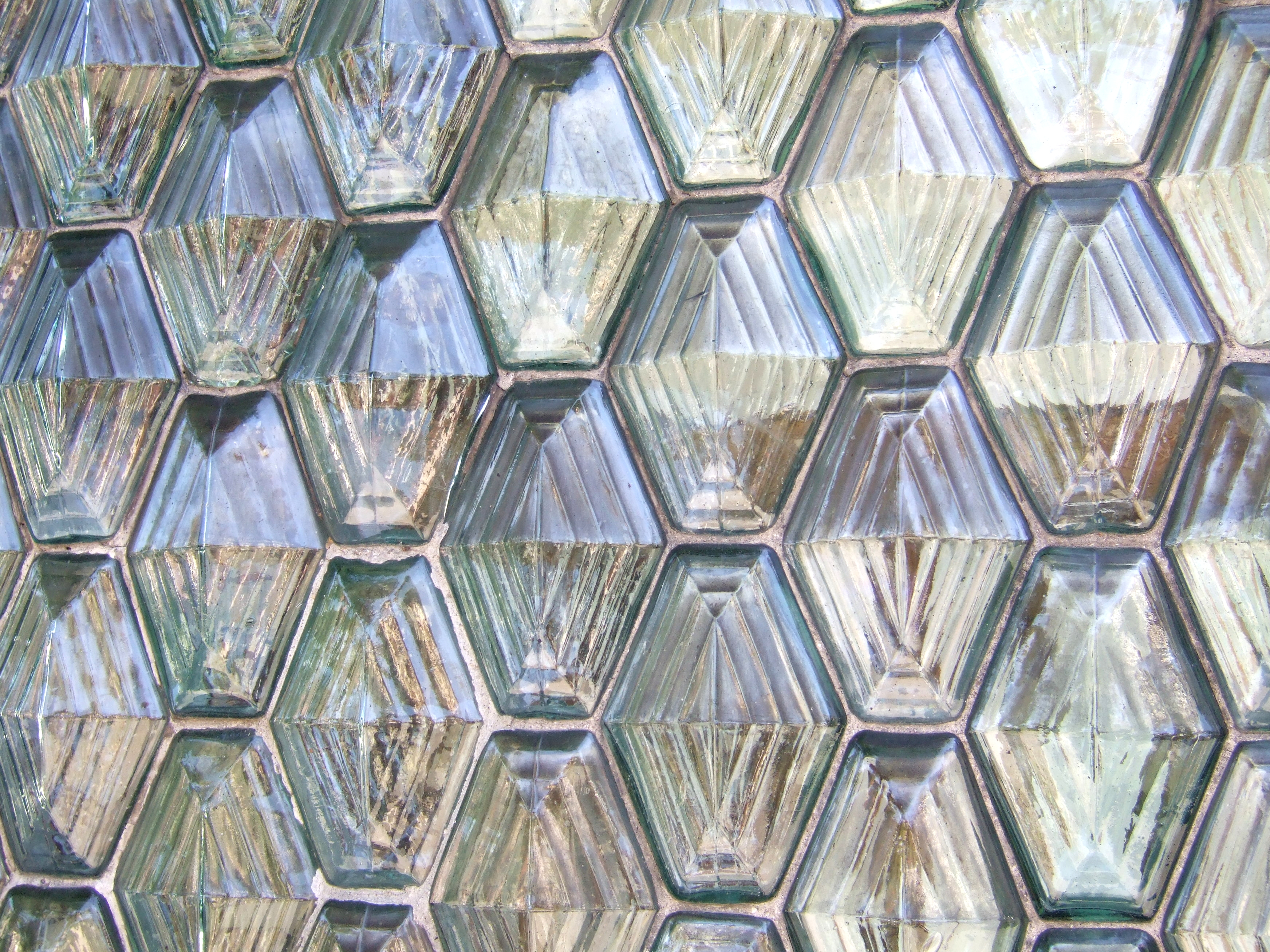 Glass blocks in a honeycomb pattern (Place of photography: Calw, Germany)